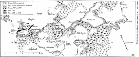 Map of the area around Værløs, Denmark. Ch. Lütken: Den Langenske forstordning